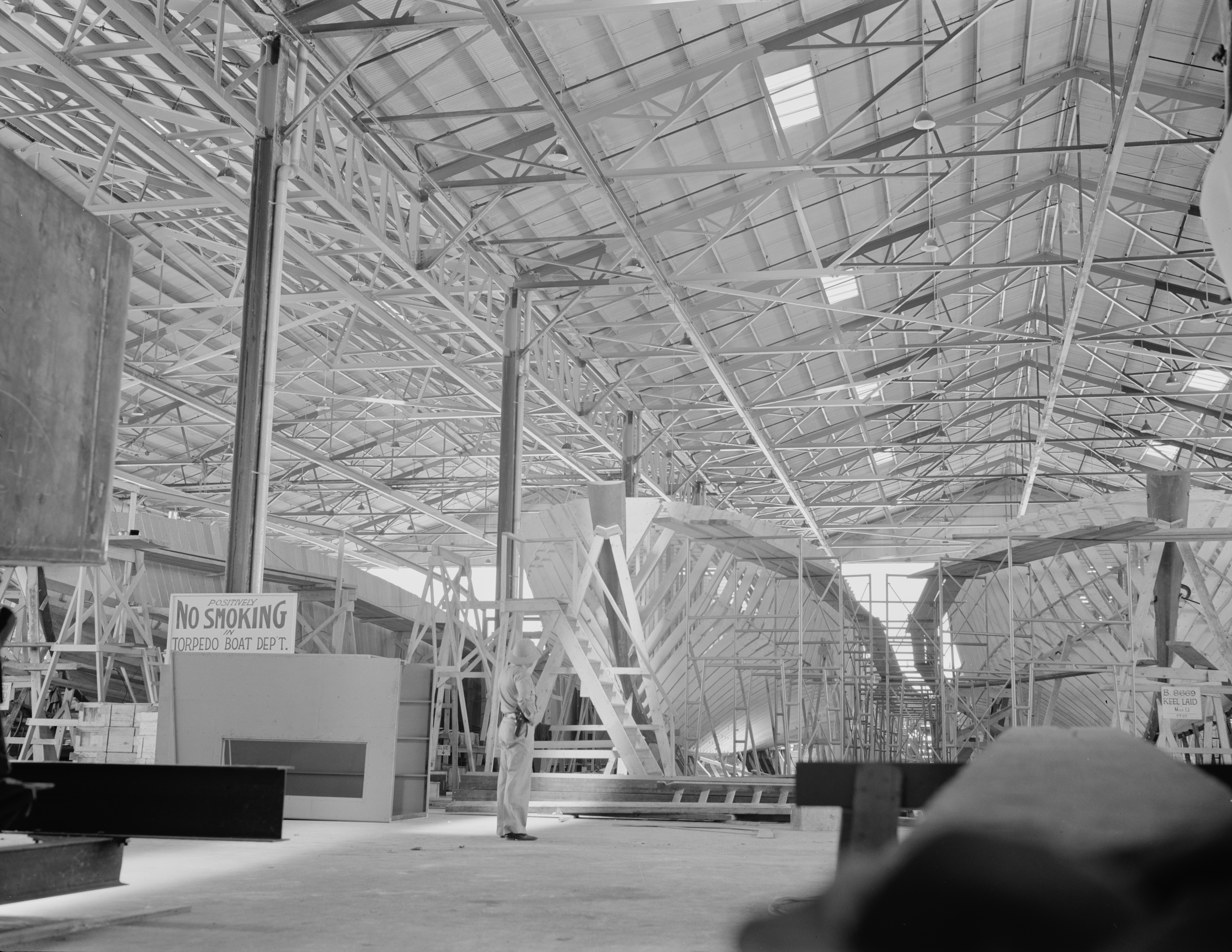 Wooden motor torpedo boats for the Navy are built of prefabricated parts and sections in a large Southern shipyard. These fast seventy-eight-footers are built under roof and moved to a nearby waterway for launching and fitting. Higgins Industries